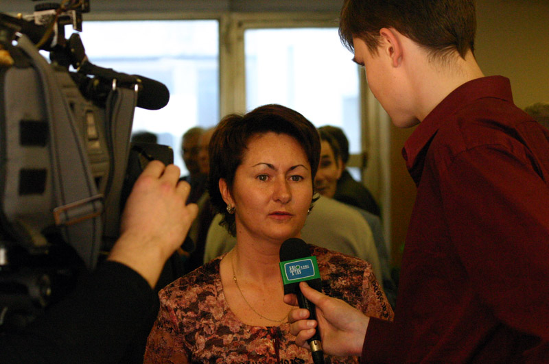 Elena_Vaelbe